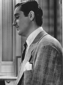 Emilio de Grey- actor